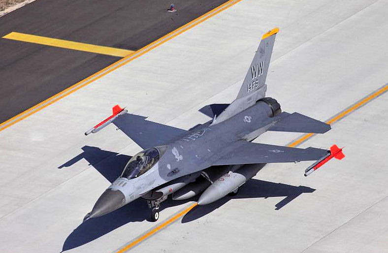 USAF F-16C block 50 #90-0825 from 14 FS seen on the tarmac at MCAS Iwakuni, Japan on March 13, 2011, during Operation Tomodachi, a coordinated response with Japan to a magnitude 9.0 earthquake and a tsunami that struck the nation March 11. [USMC photo by Lance Cpl. Kassie L. McDole]